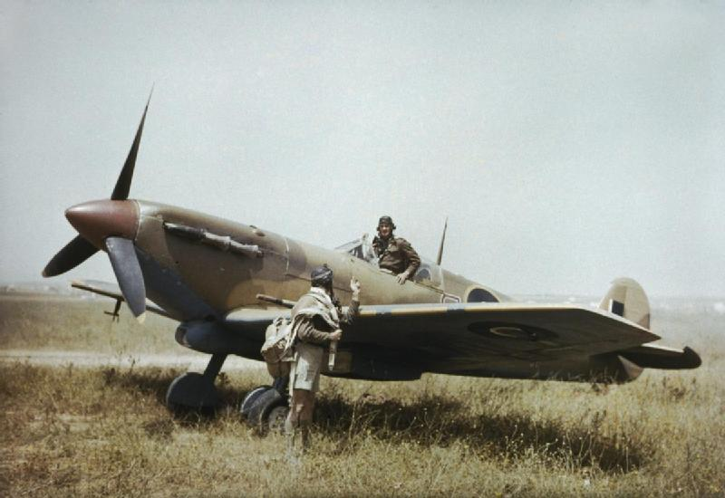 Supermarine Spitfire Mk V and pilots of No. 40 Squadron, South African Air Force, at Gabes in Tunisia, April 1943. The Supermarine Spitfire pilot of ER622, No 40 Squadron, South African Air Force confers with his 'No 2' after landing at Gabes.